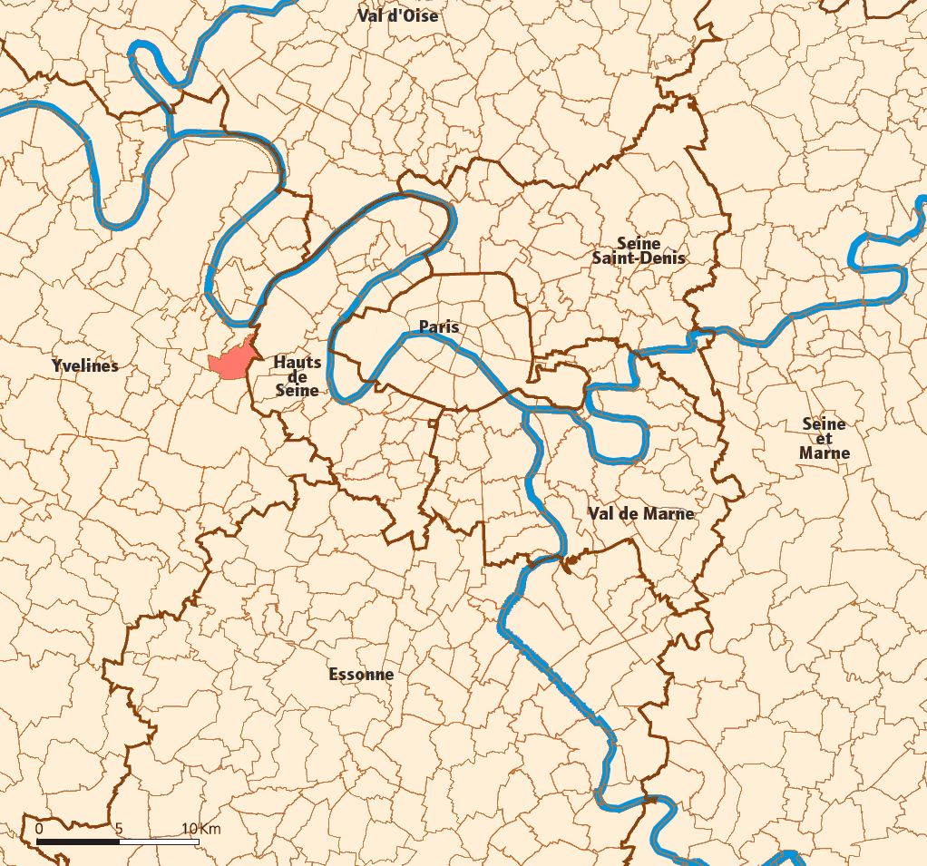 Created map myself.